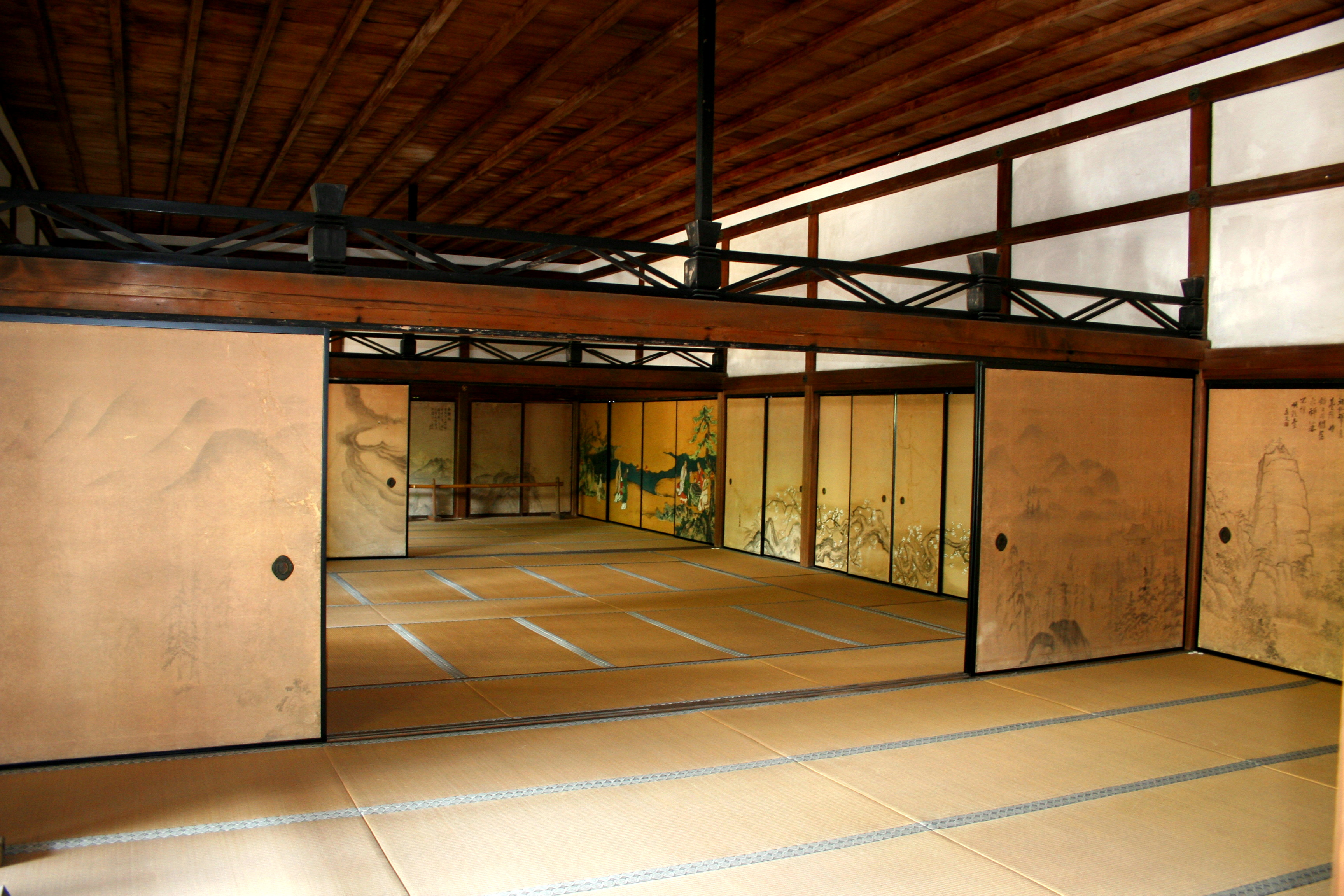 Interior of the Kuri, the main building of the Ryōan-ji Temple northwest of Kyoto, Japan.